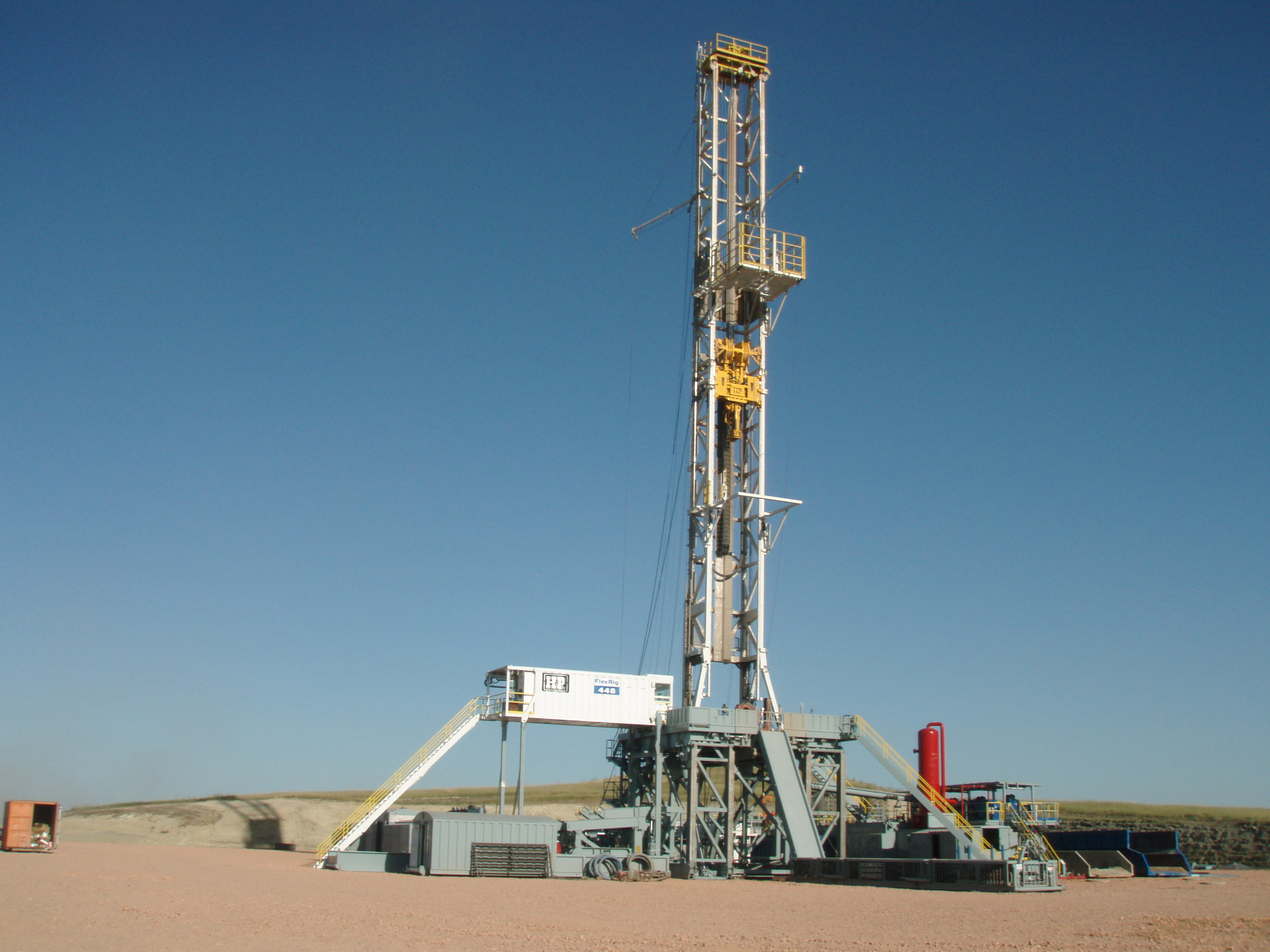 upright oil derrick in the Williston Basin North Dakota